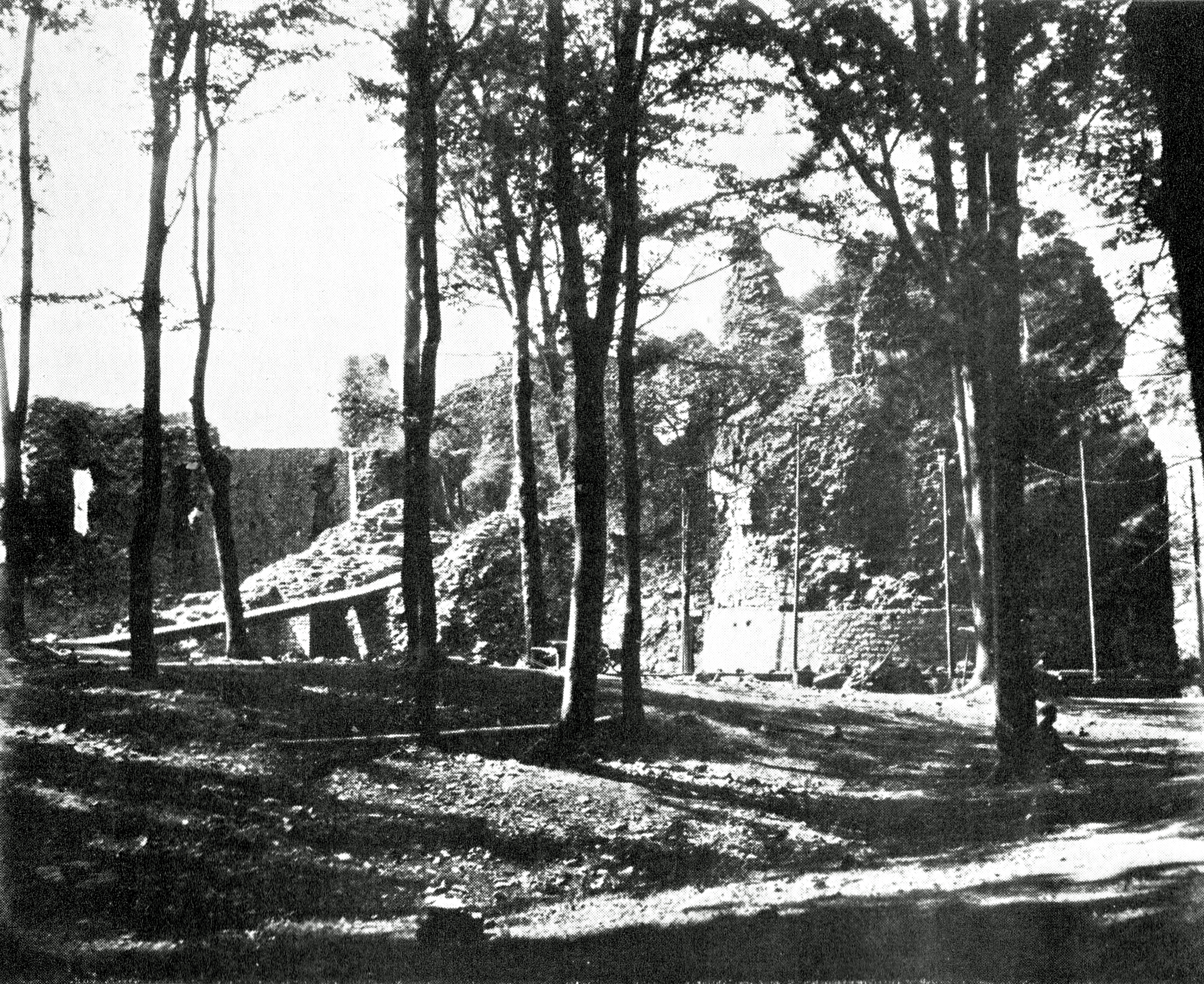 Original photographer anonymous